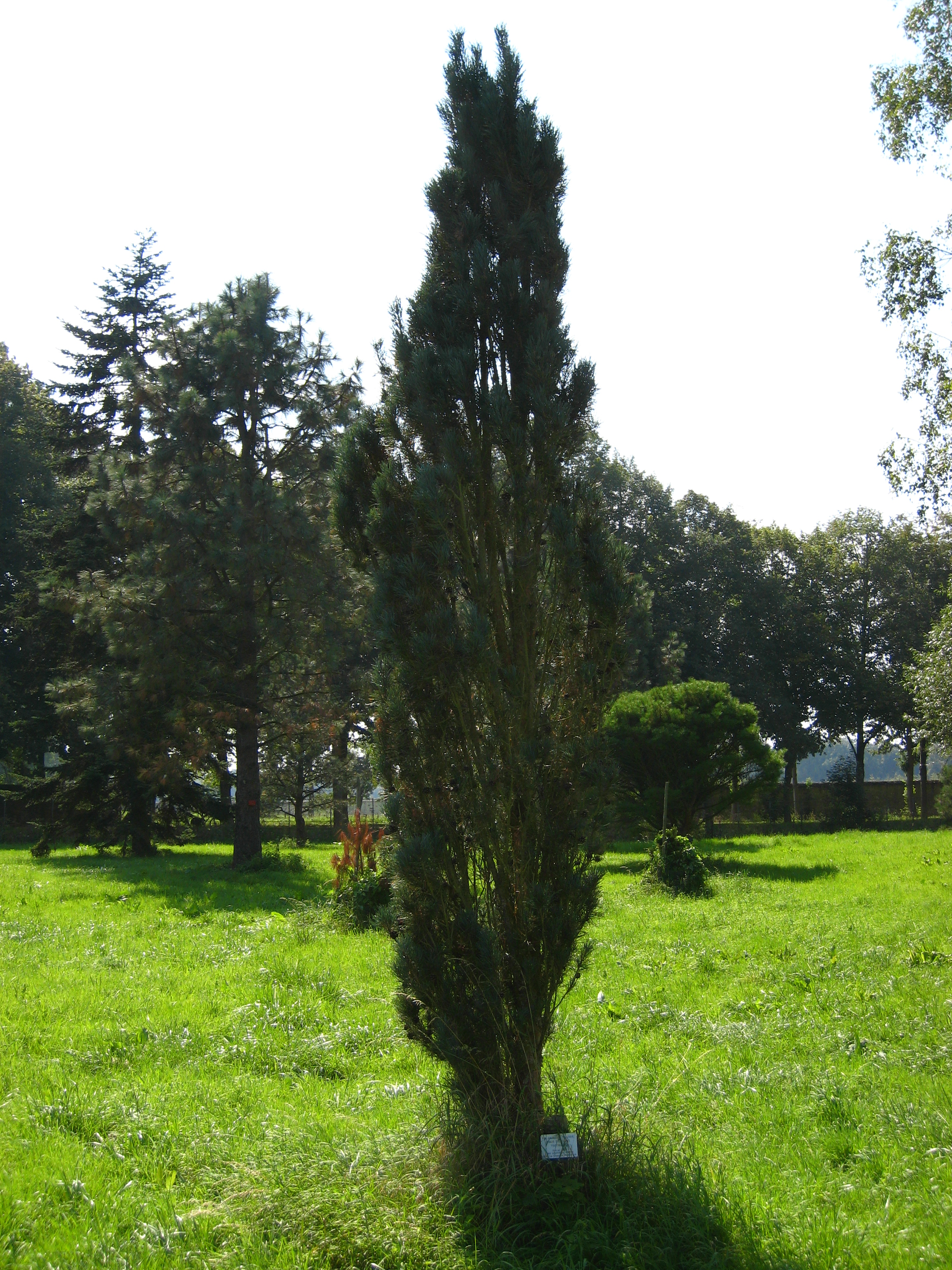 Pinus sylvestris 'fastigiata' in the Arboretum de Chèvreloup in Rocquencourt.